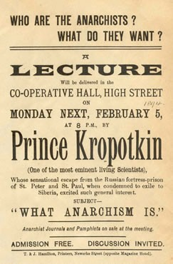 Kropotkin lecture